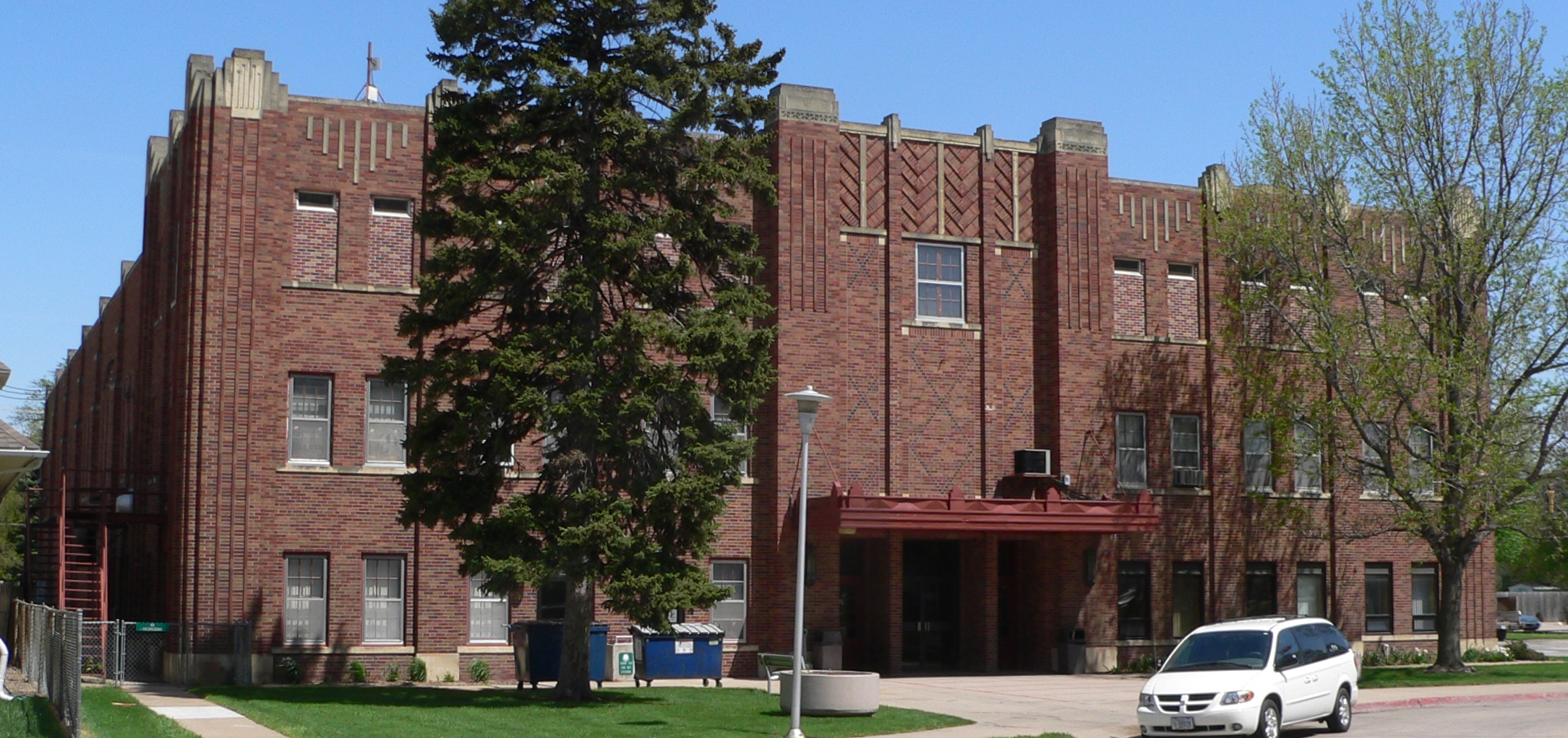 Fremont Municipal Auditorium in Fremont, Nebraska; seen from the southwest. The Art Deco building was constructed in 1937, and is listed in the National Register of Historic Places.